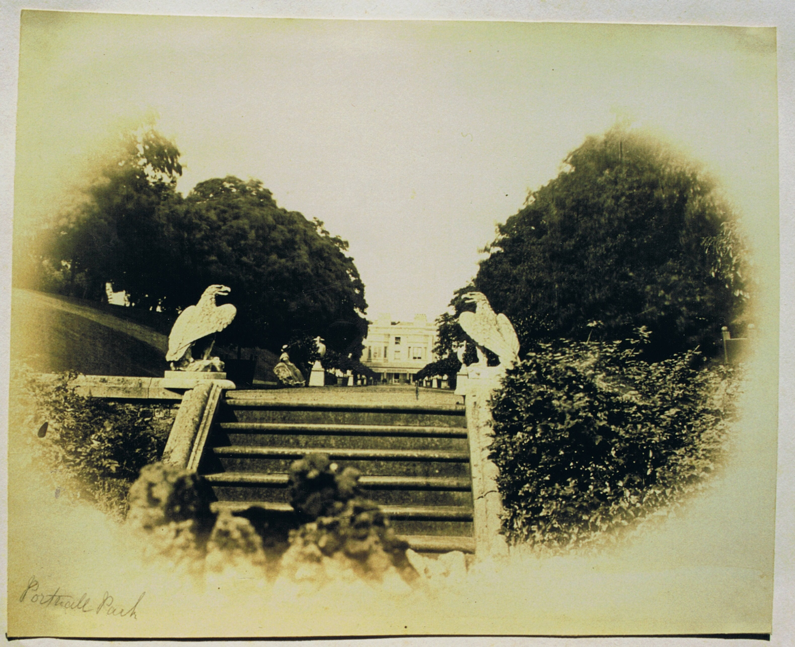 A photograph of a terrace at Portnall Park, Virginia Water, Surrey, England, UK, from an album belonging to Rev. Henry Jerome's brother Willy and his wife Emily. The original photograph was taken facing north towards the house.